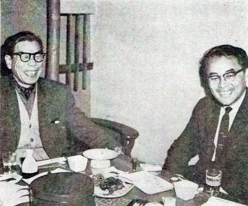 Kiyohiko Ushihara(left) and Yoichi Ushihara(right).